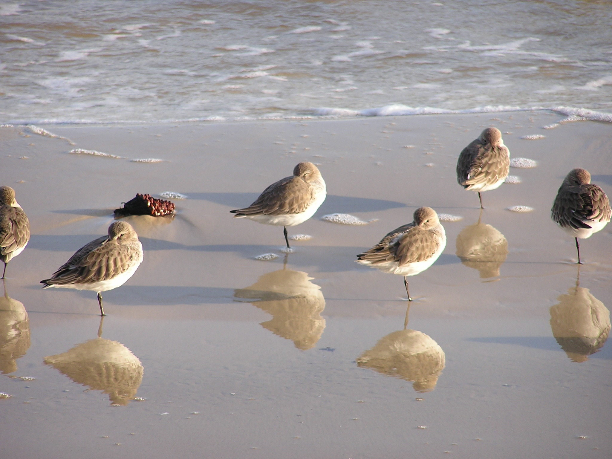 PB230054: Calidris alpina (Dunlin) in Waveland, MS